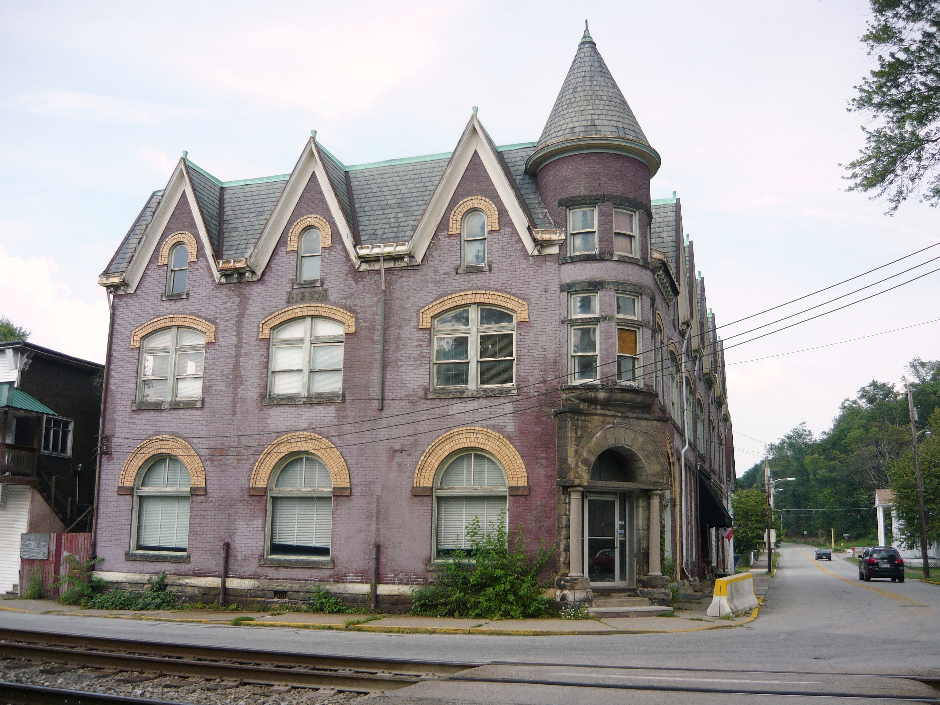 First National Bank of Dawson, built 1897, 200-206 Main Street at corner of Railroad Street, Dawson, Fayette County, Pennsylvania. Main Street runs from the camera position into the background, at the right edge of the image.